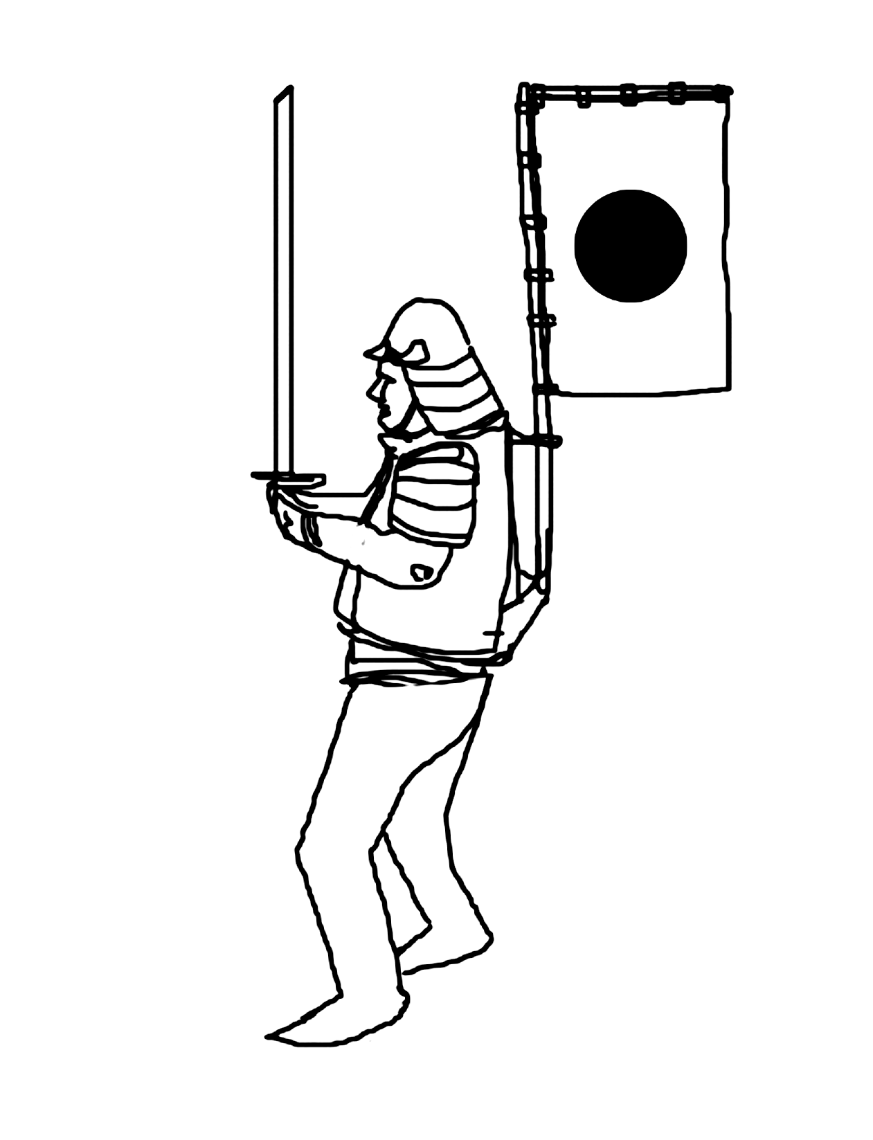 Illustration depicting a 15th century Japanese soldier with a banner on his back, which are called Sashimono Created on March 25, 2005, by myself, Clngre.